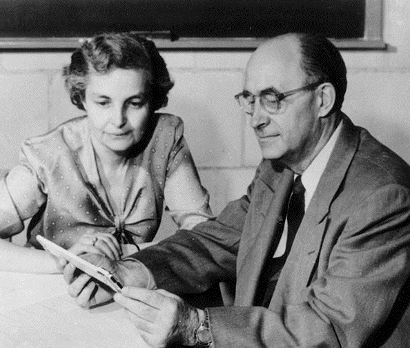 The Italian physicist Enrico Fermi sitting with his wife Laura Capon in his office at the Institute for Nuclear Studies. Los Alamos, 1954